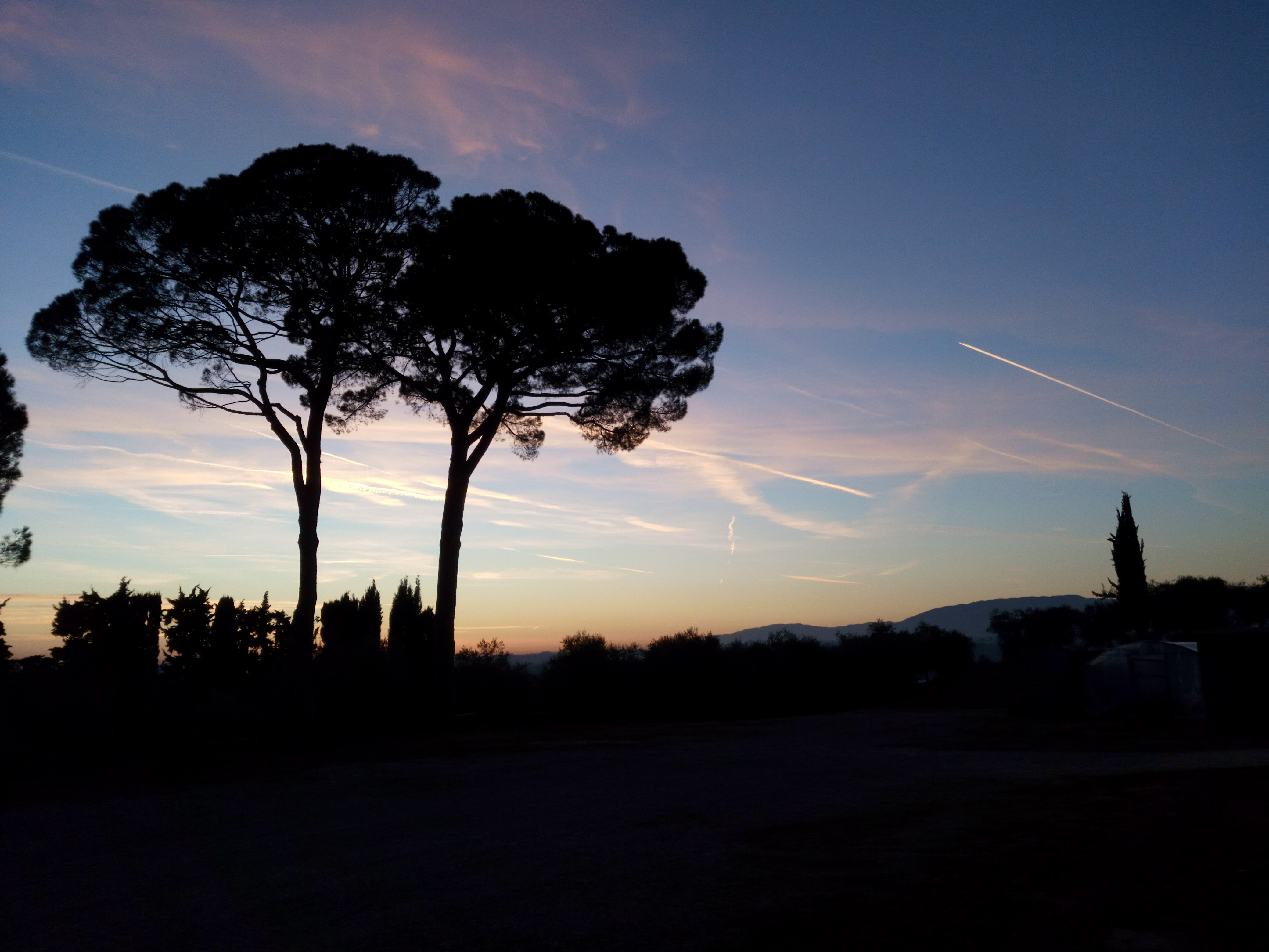 I due grandi pini sul colle di Castello Roganzuolo (Foto scattata da Paolo Steffan il 21/12/2016)